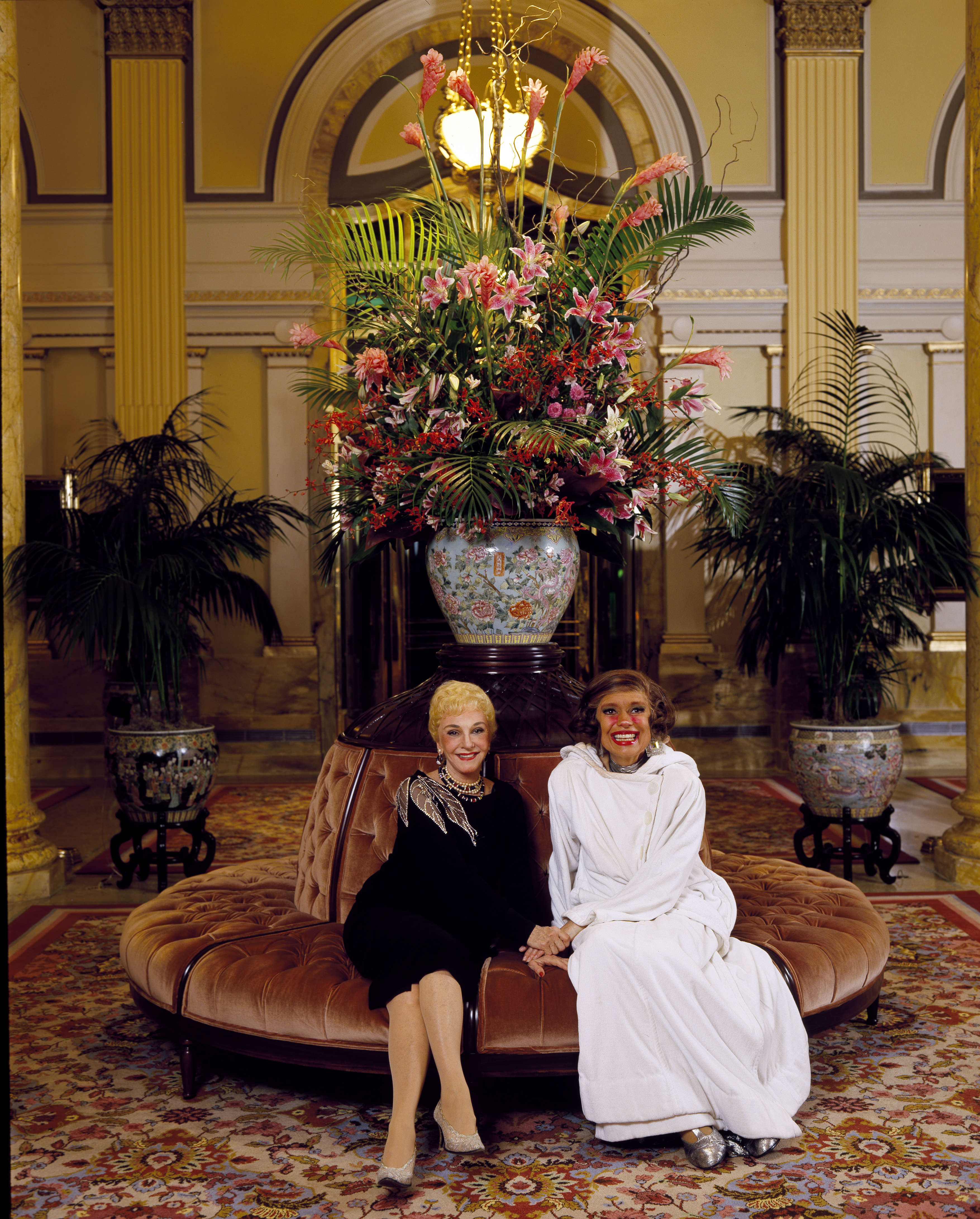 The night before the newly restored Willard Hotel opened in 1986 Carol Highsmith was photographing the Willard Hotel interior. Famous actresses, Mary Martin and Carol Channing were performing in a play at the National Theatre next door and there was a fire alert. They came over to the Willard until the all clear, and posed for Highsmith in the newly renovated lobby.